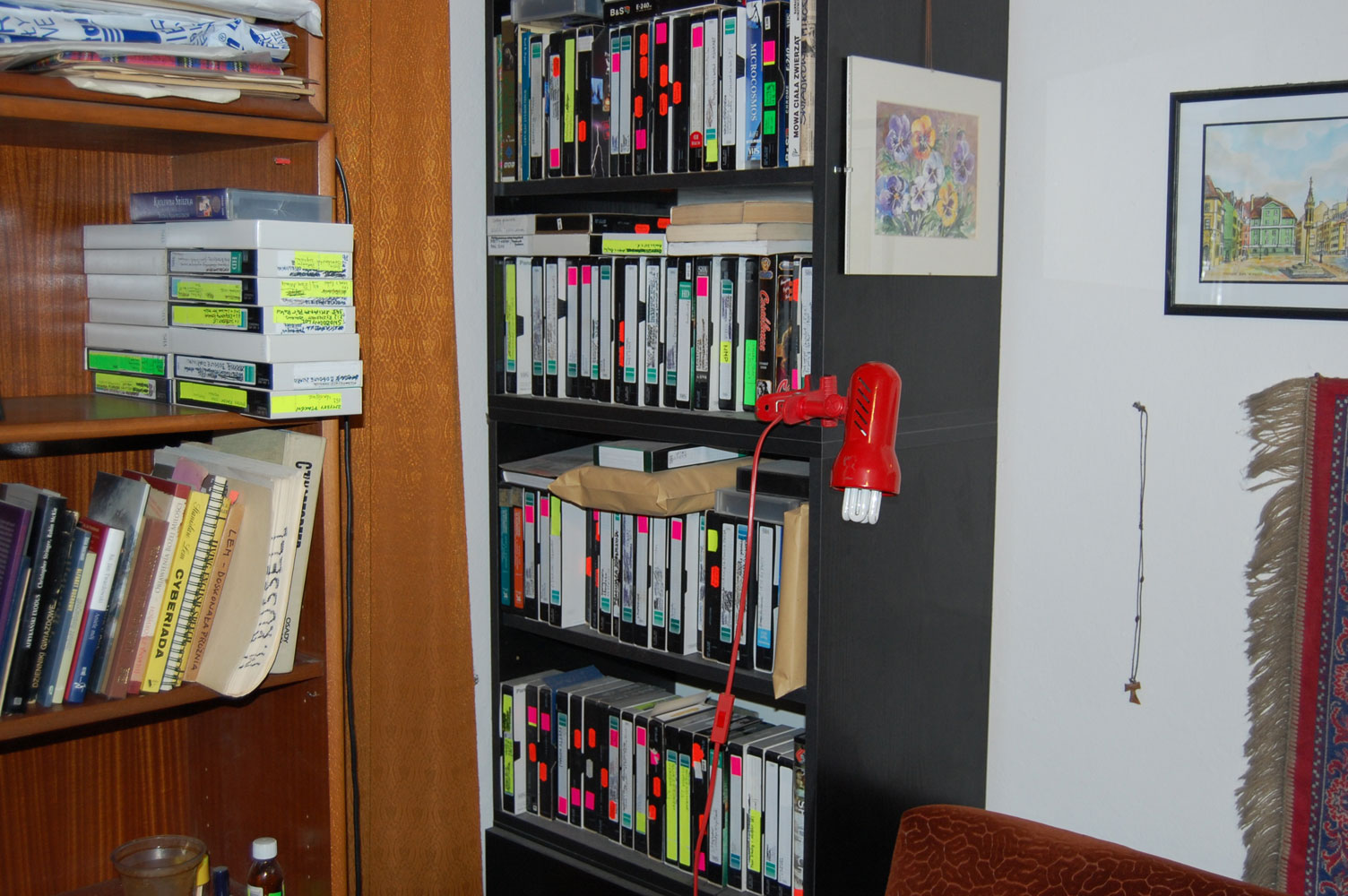 Movie tapes in Piotr Lenartowicz's (Kraków, Kopernika 26)